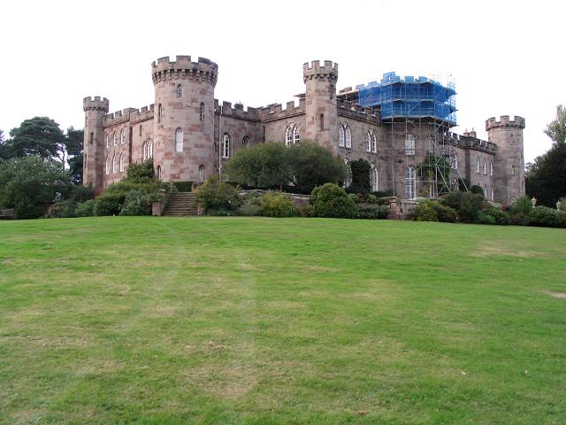 Another view of Cholmondeley Castle